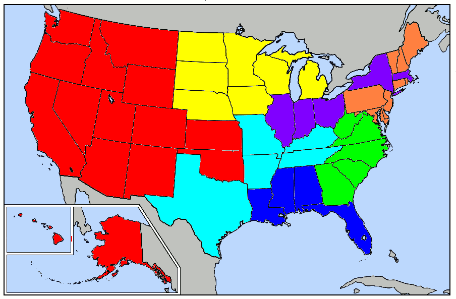 Map of the United States, showing areas covered by each of the state compilation law reports published by Thomson West. Purple: North Eastern Reporter Orange: Atlantic Reporter Yellow: North Western Reporter Green: South Eastern Reporter Cyan: South Western Reporter Blue: Southern Reporter Red: Pacific Reporter